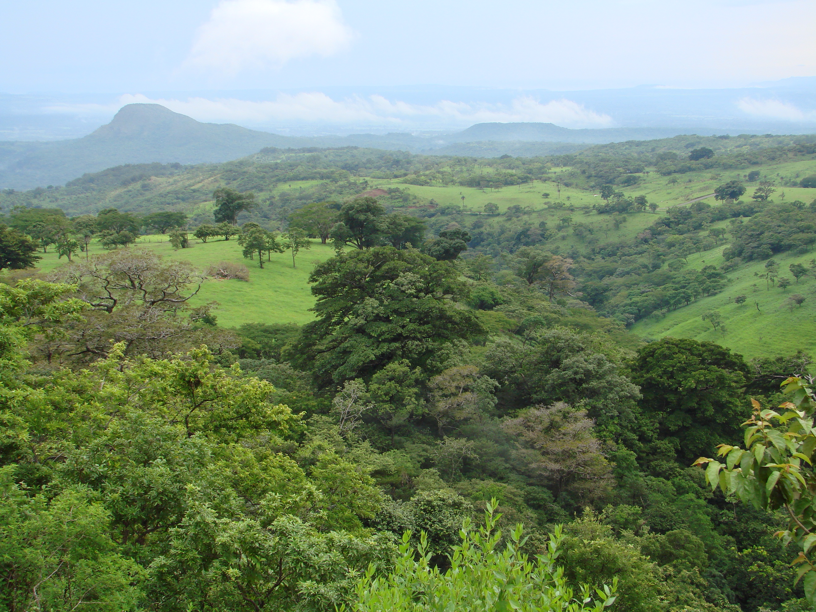 A Guanacaste portrait from Bella Vista Lodge, Liberia (Costa Rica)